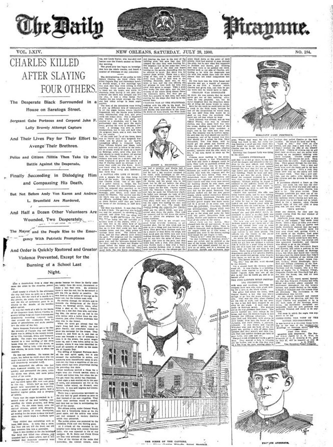 "Daily Picayune" newspaper, New Orleans, front page for 28 July 1900. Coverage of the killing of Robert Charles